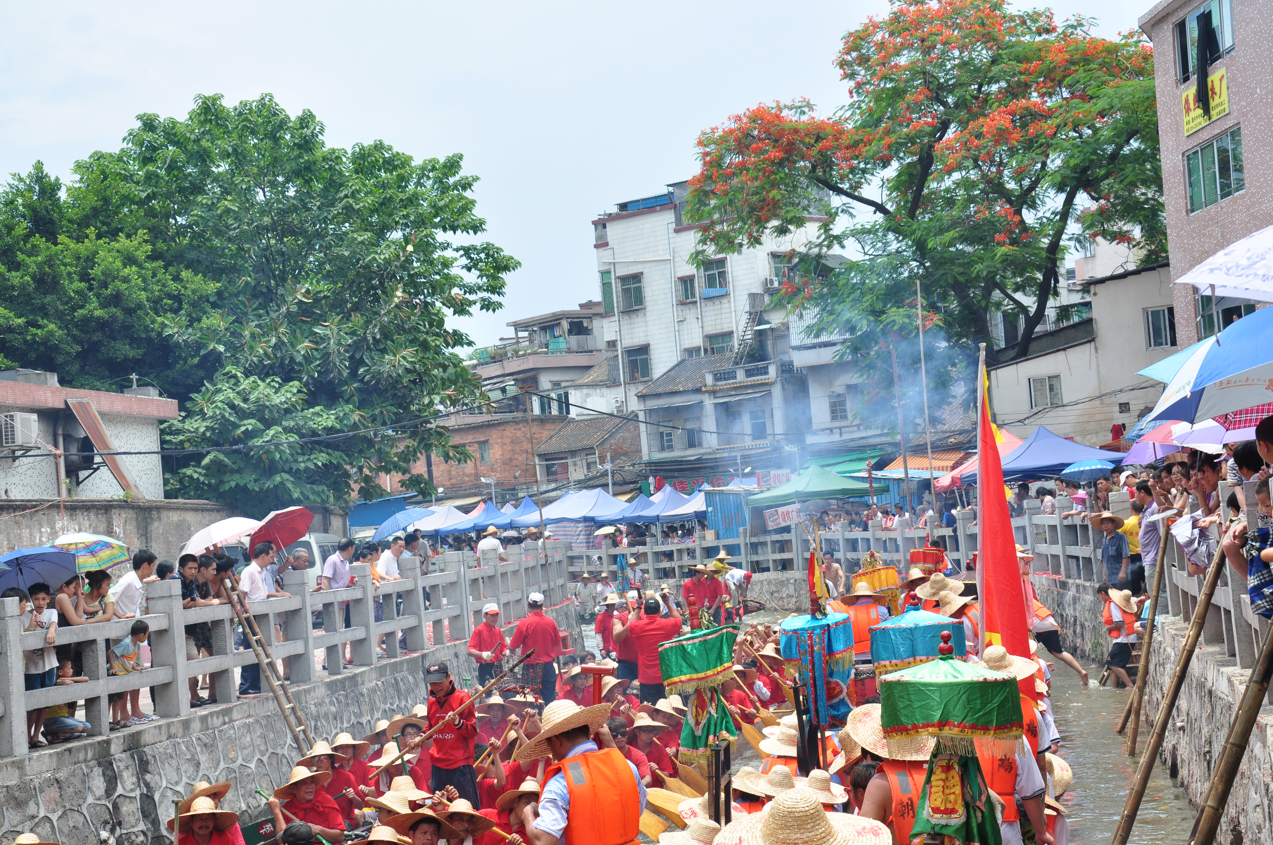 亞運河涌整治后的第一年大塘龍船景 - 大塘小學校門口對出涌面